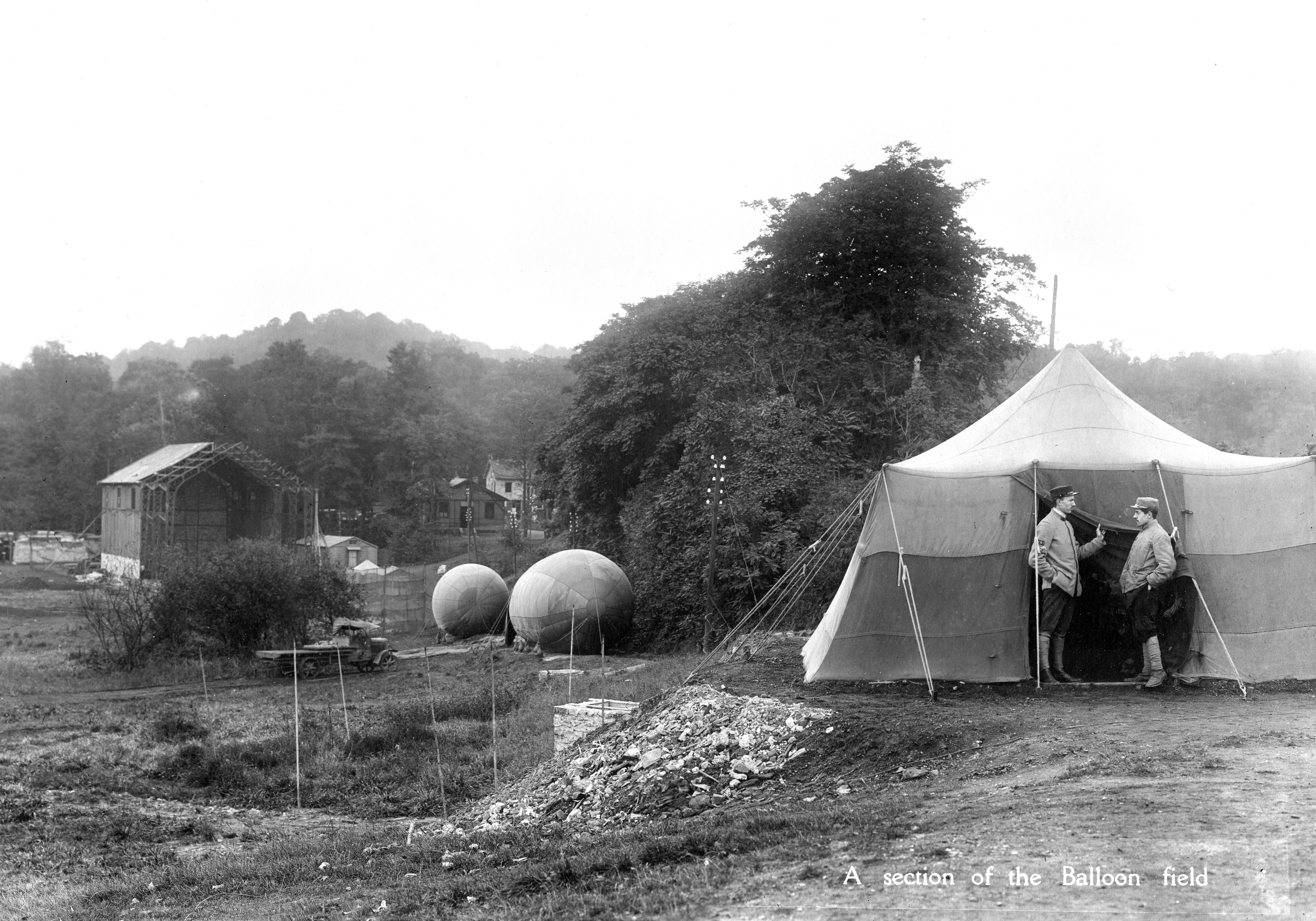 US Navy at Chalais - Meudon, France 1918. A section of the balloon field.